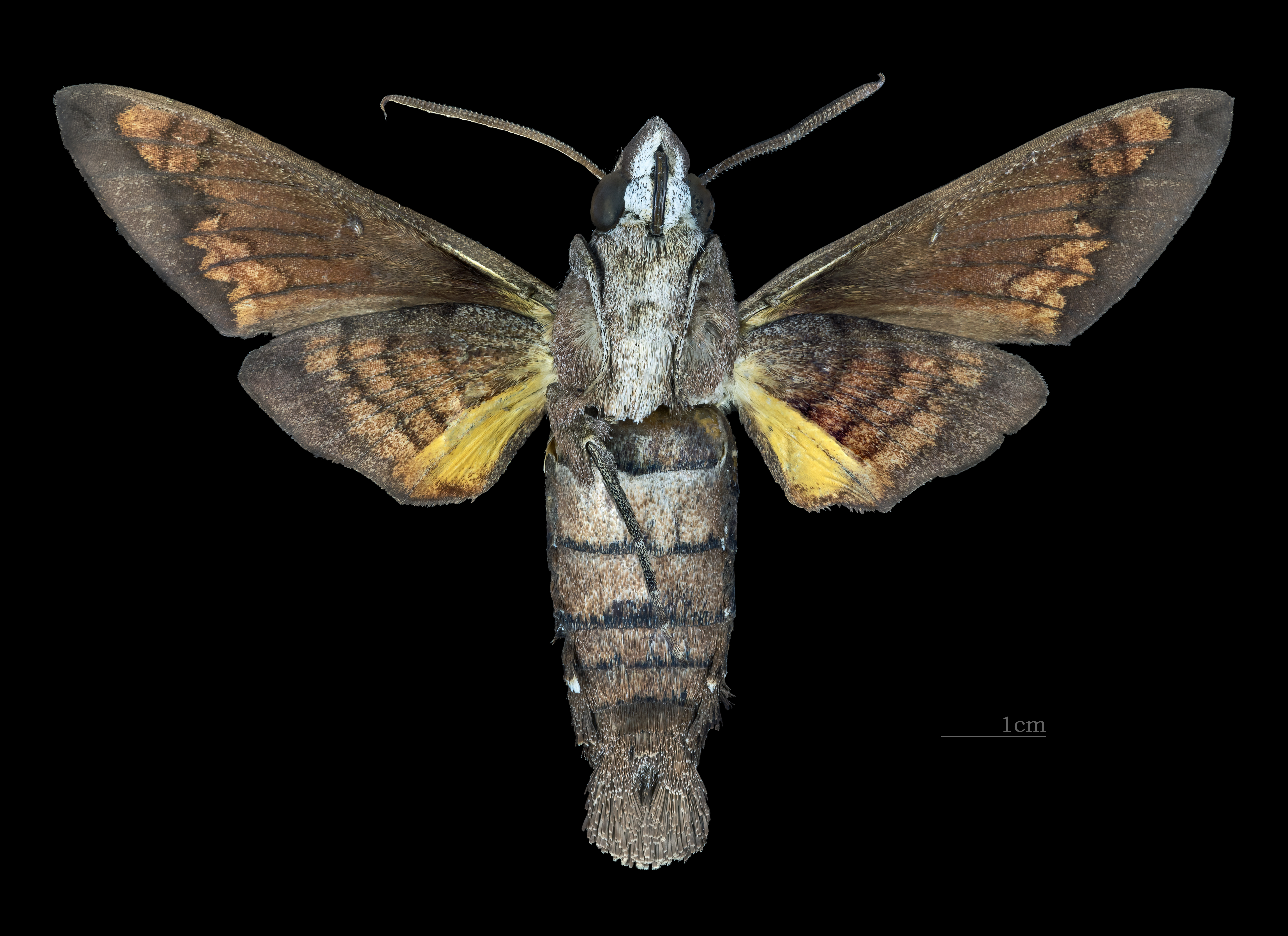 Macroglossum mitchellii - △ Ventral side Collection of the Mathematician Laurent Schwartz